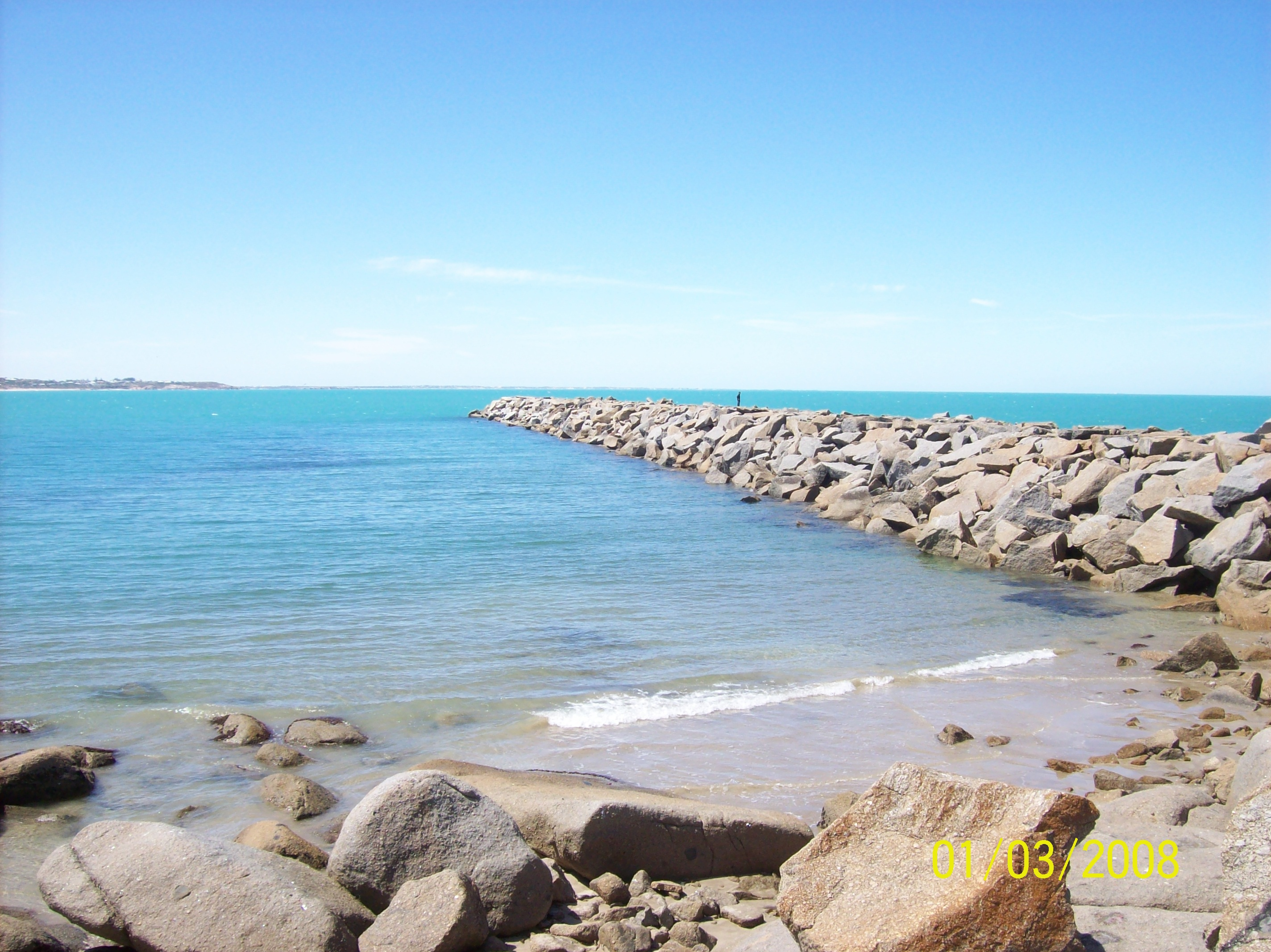 Brakewater Granite island, South Australia. For more information, see the Wikipedia article Granite Island (Australia).